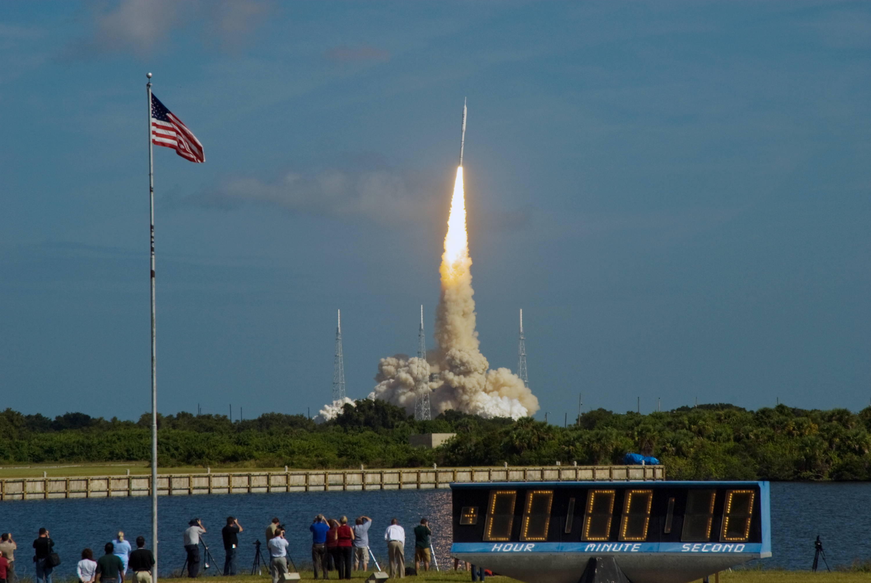 CAPE CANAVERAL, Fla. - The stars and stripes on the American flag reflect NASA's commitment to teamwork as the Constellation Program's Ares I-X test rocket roars off Launch Complex 39B at NASA's Kennedy Space Center in Florida. The rocket produces 2.96 million pounds of thrust at liftoff and reaches a speed of 100 mph in eight seconds. Liftoff of the 6-minute flight test was at 11:30 a.m. EDT Oct. 28. This was the first launch from Kennedy's pads of a vehicle other than the space shuttle since the Apollo Program's Saturn rockets were retired. The parts used to make the Ares I-X booster flew on 30 different shuttle missions ranging from STS-29 in 1989 to STS-106 in 2000. The data returned from more than 700 sensors throughout the rocket will be used to refine the design of future launch vehicles and bring NASA one step closer to reaching its exploration goals.